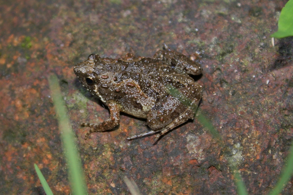 Butler's Pygmy Frog, (Microhyla butleri). Taken at Lions Nature Education Centre.